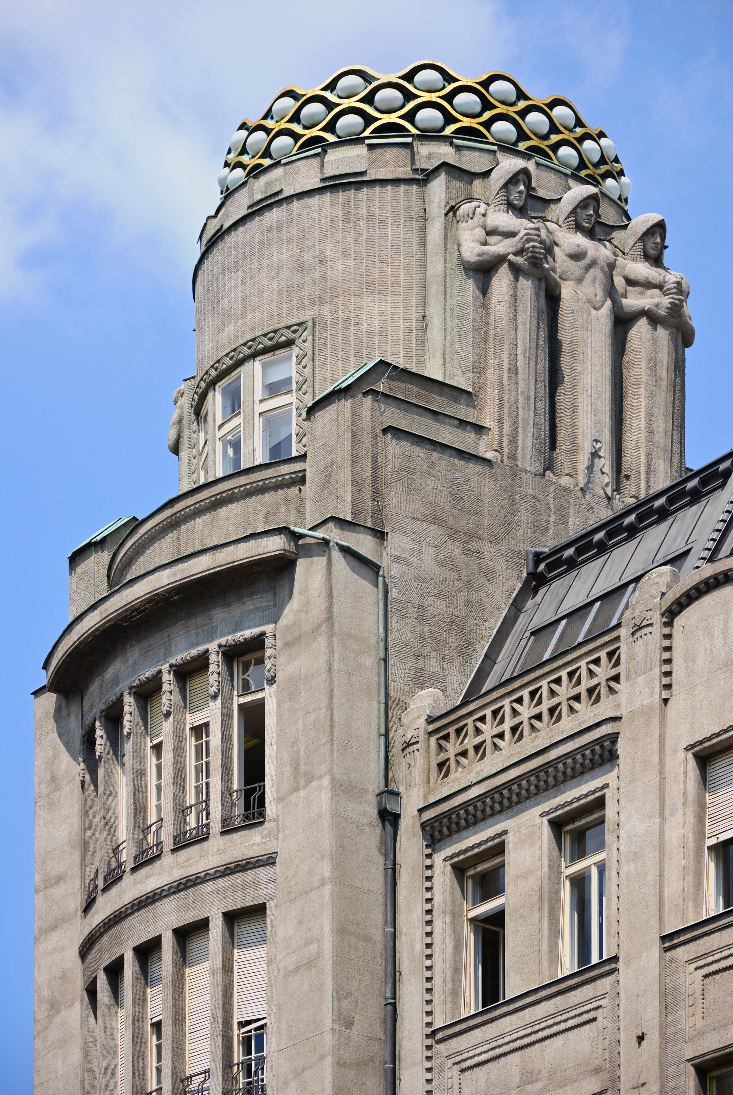 Crown of the Koruna Palace (1912-1914) in Wenceslas Square, Prague, Czech Republic. Architects: Antonin Pfeiffer et Matěj Blecha. Sculptor: Vojtěch Sucharda.